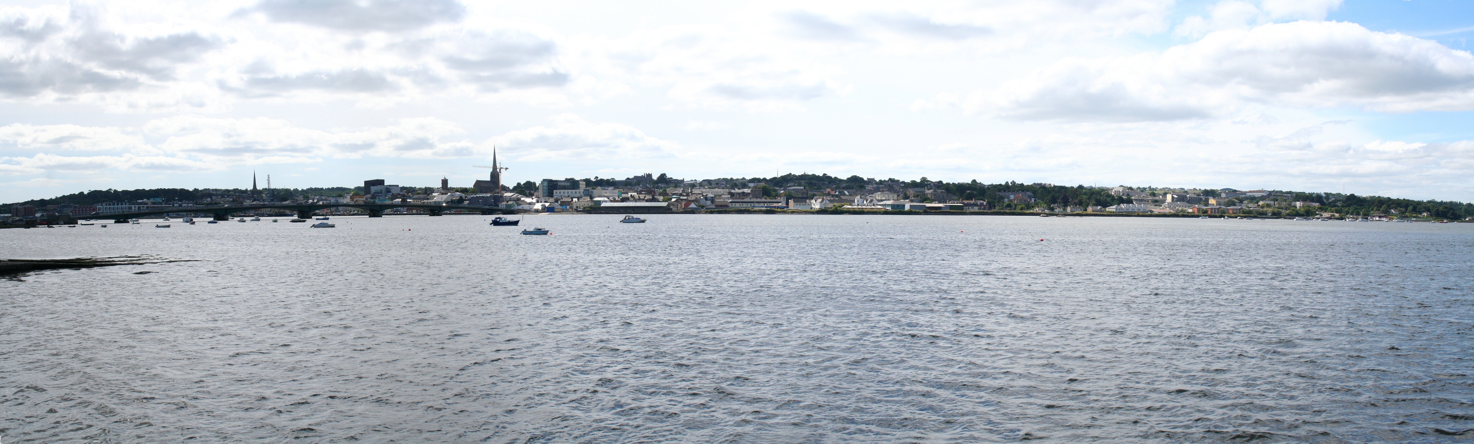 Wexford